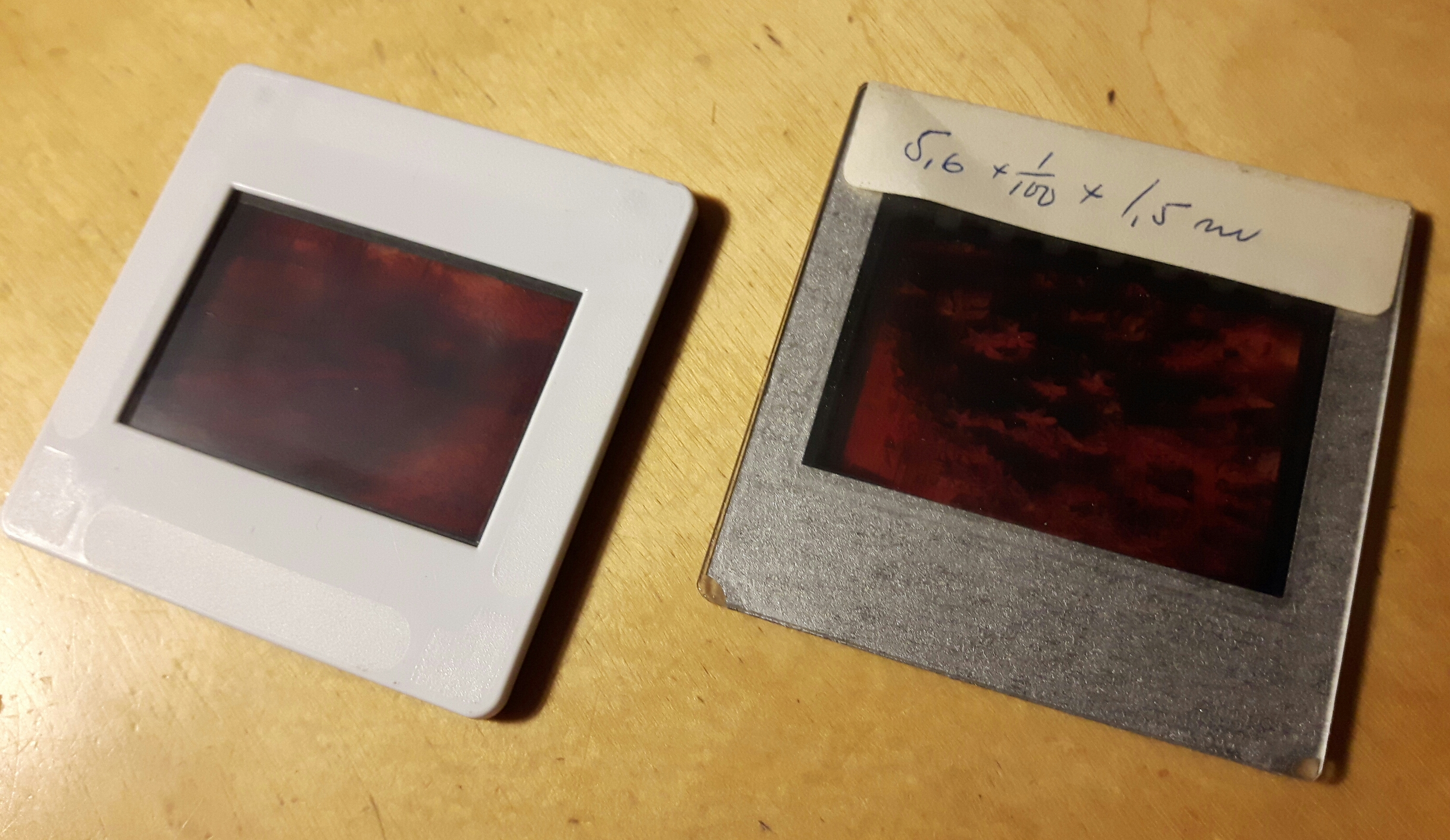 Modern plastic slide mount (Gepe A-frame, launched in 1963) and old glass slide mount, both 50x50 mm.